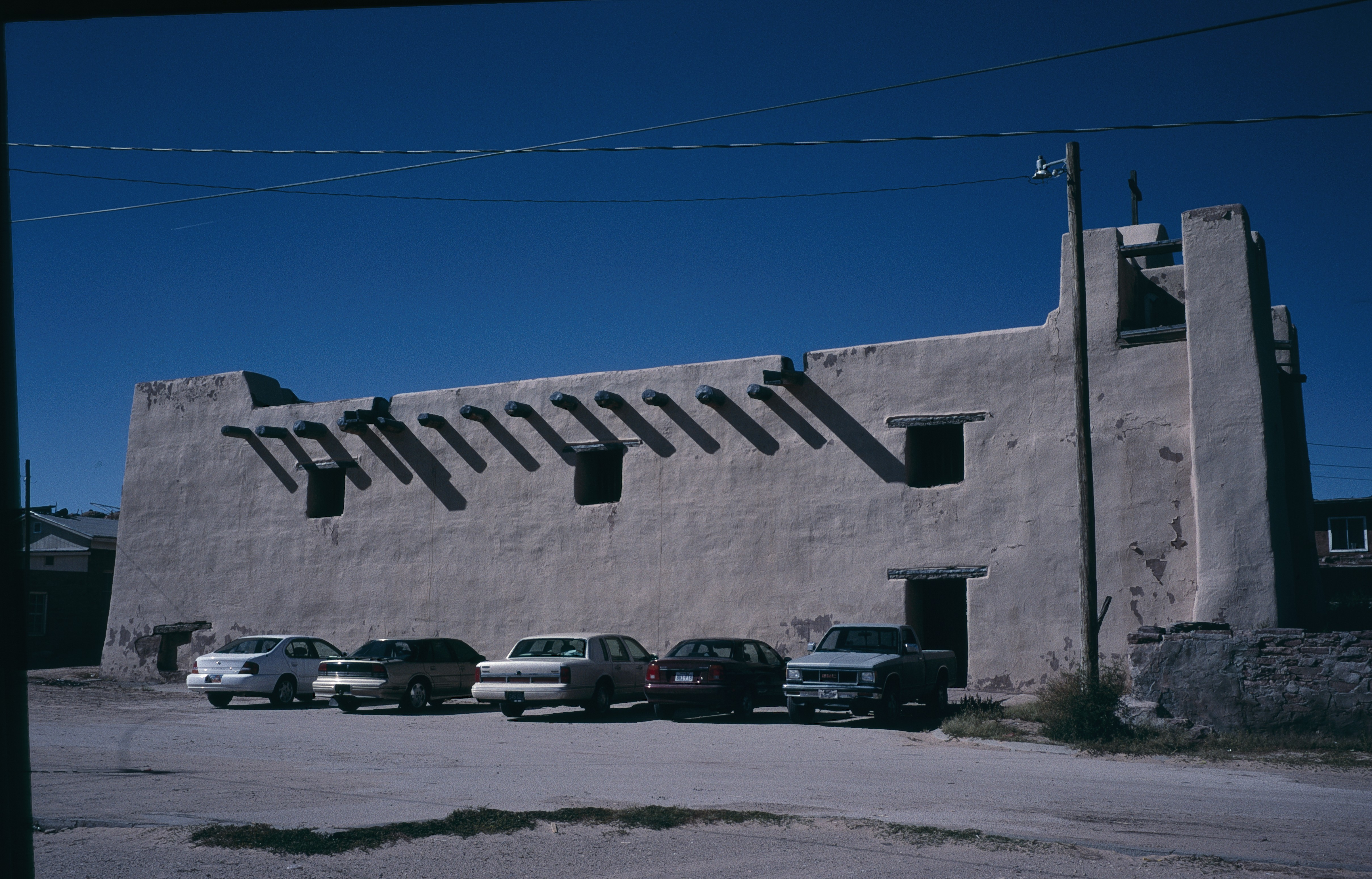 Zuñi Pueblo, NM: church